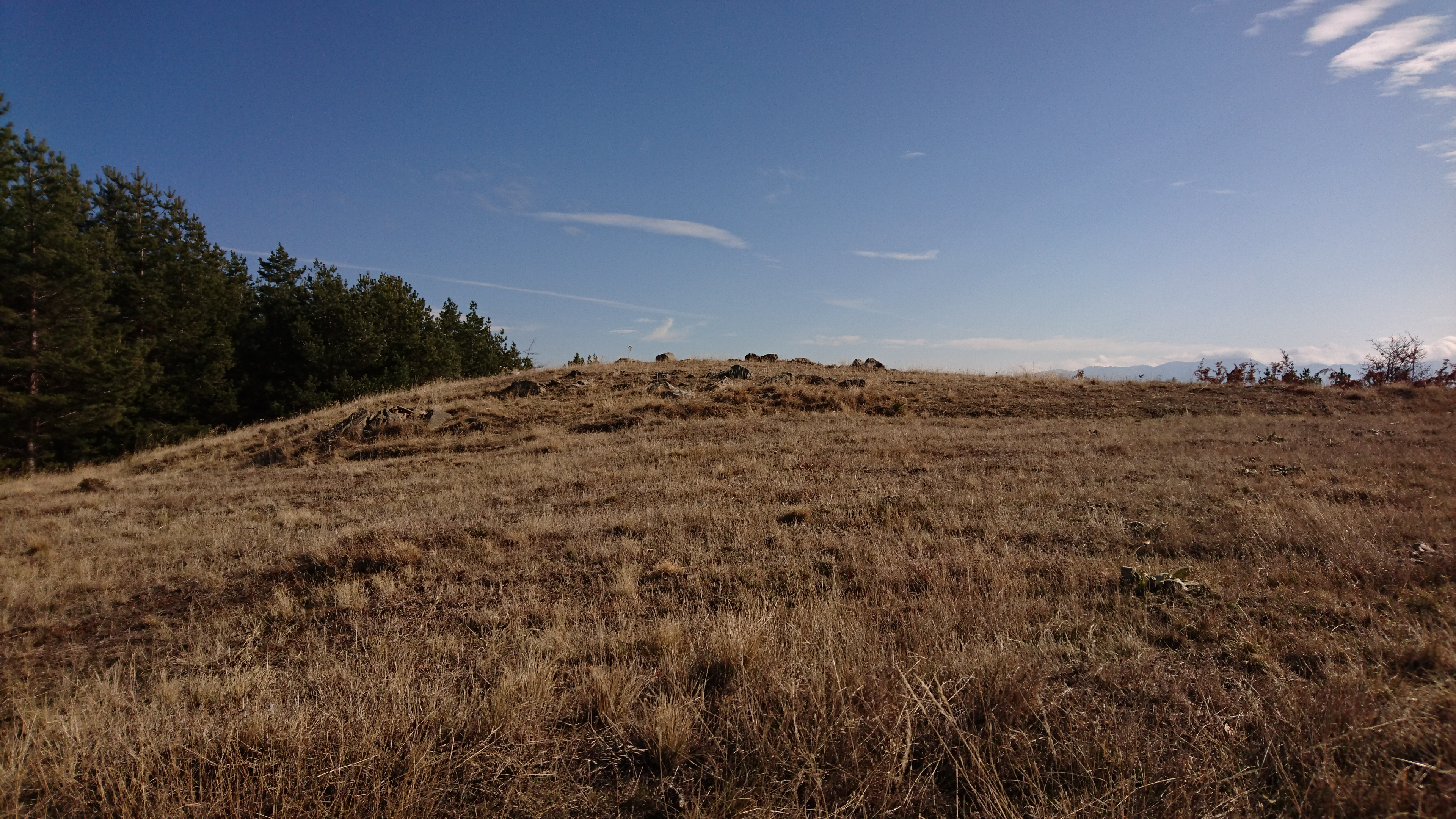 Muratov peak, view from northwest, Ograzhden, Bulgaria